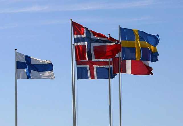 The flags of the Nordic countries